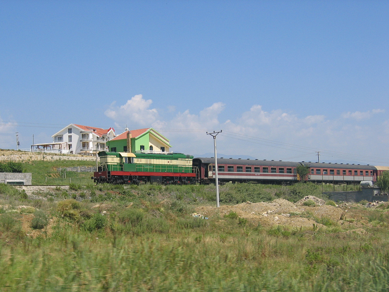 Train of Albanian Railways Hekurudha e Shqipërisë on track from Tirana to Durrës with Czech engineof type T 669